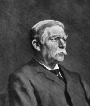 Head and shoulders portrait of Nevile Lubbock aged 64, sporting a moustache